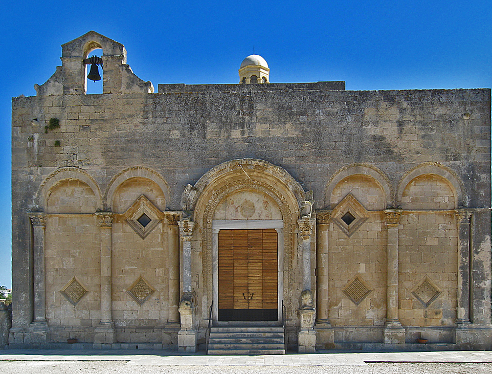 Church of Santa Maria Maggiore in Siponto, Manfredonia (Italy)